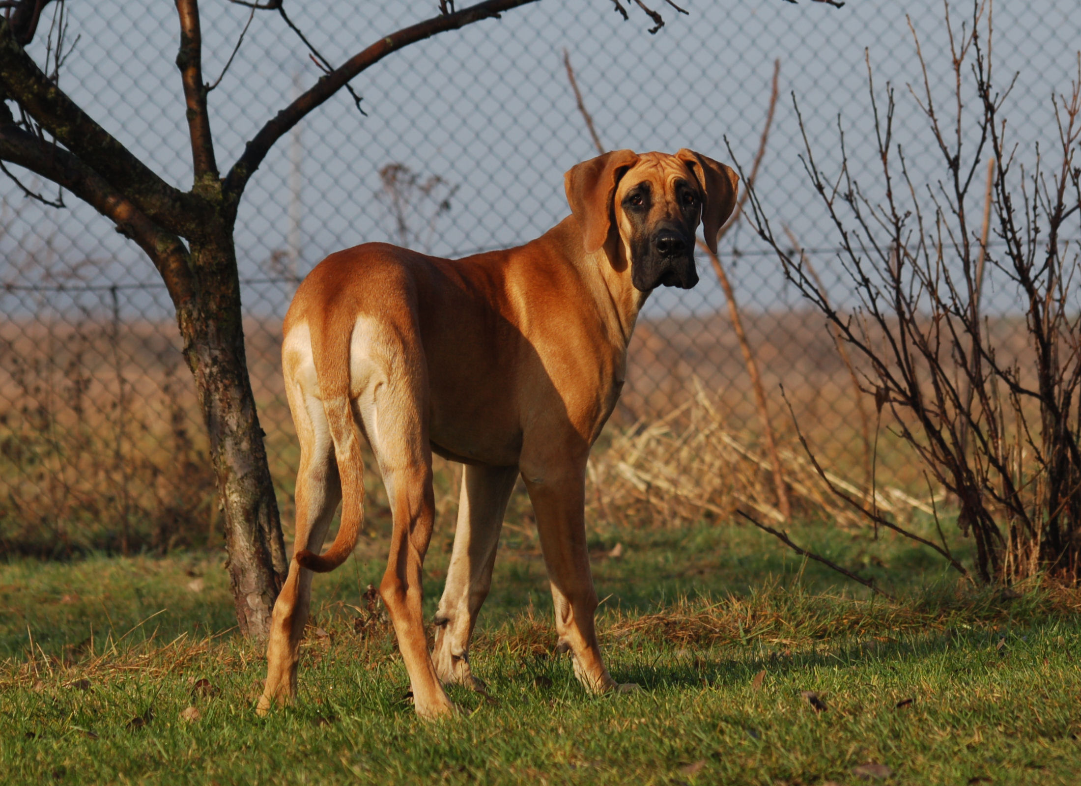 Great Dane